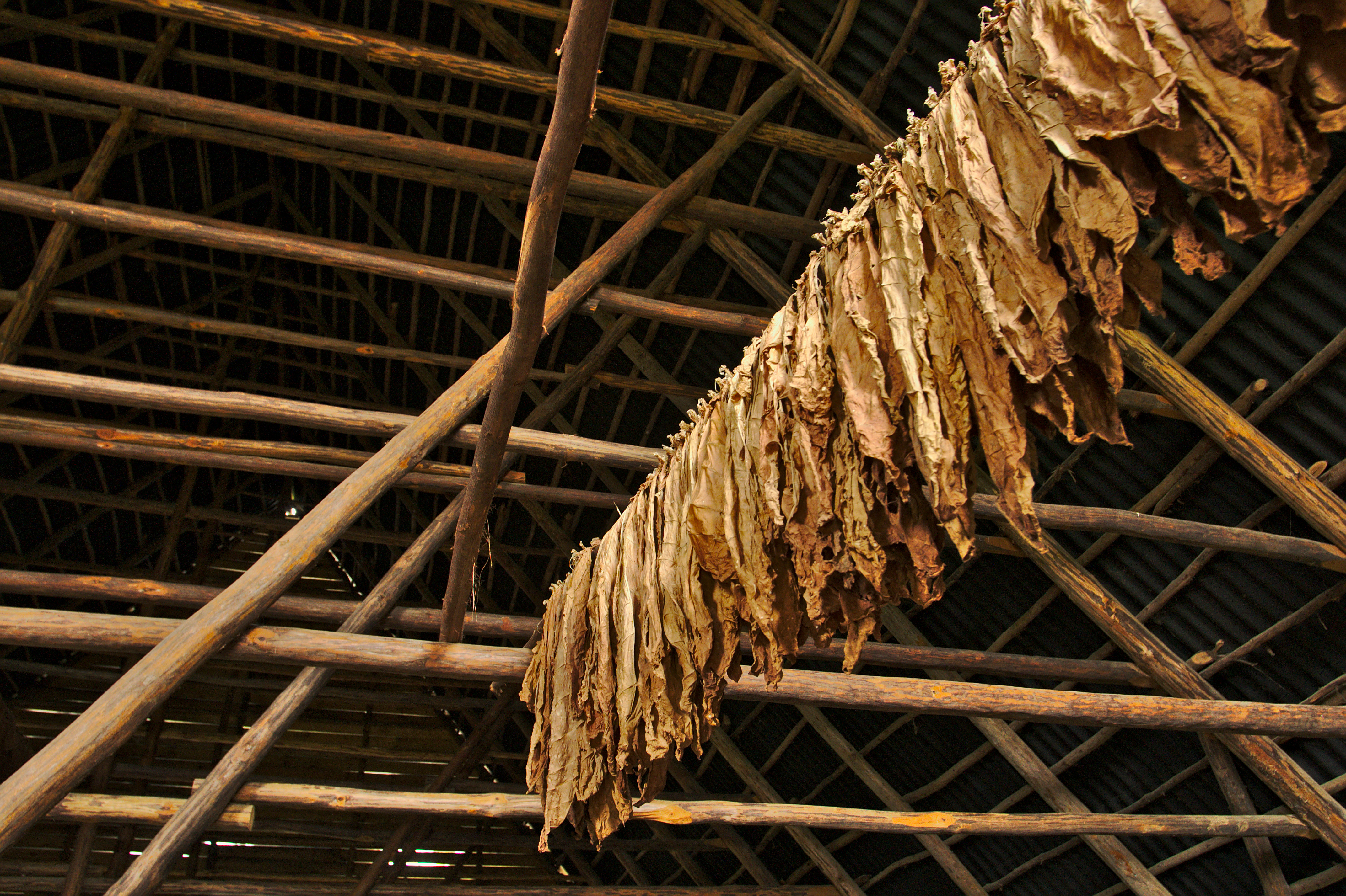 Air curing of tobacco leaves in Cuba